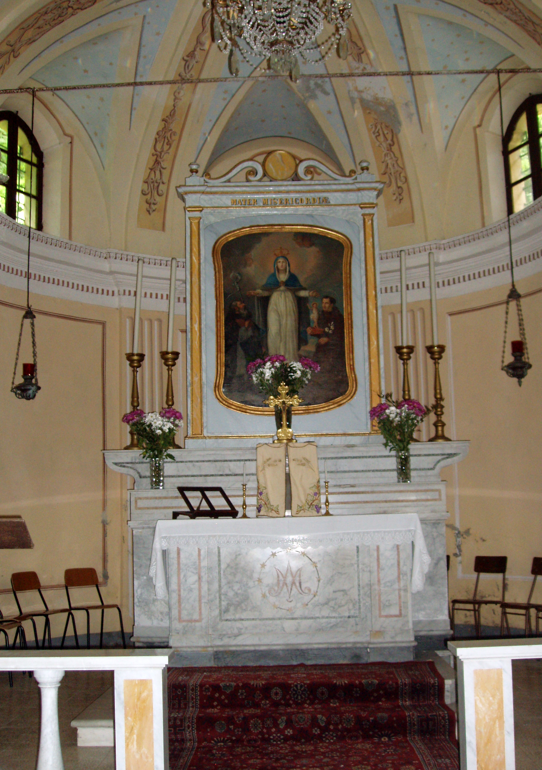 Santuario di Montaldero (Arquata Scrivia, Italy): interior